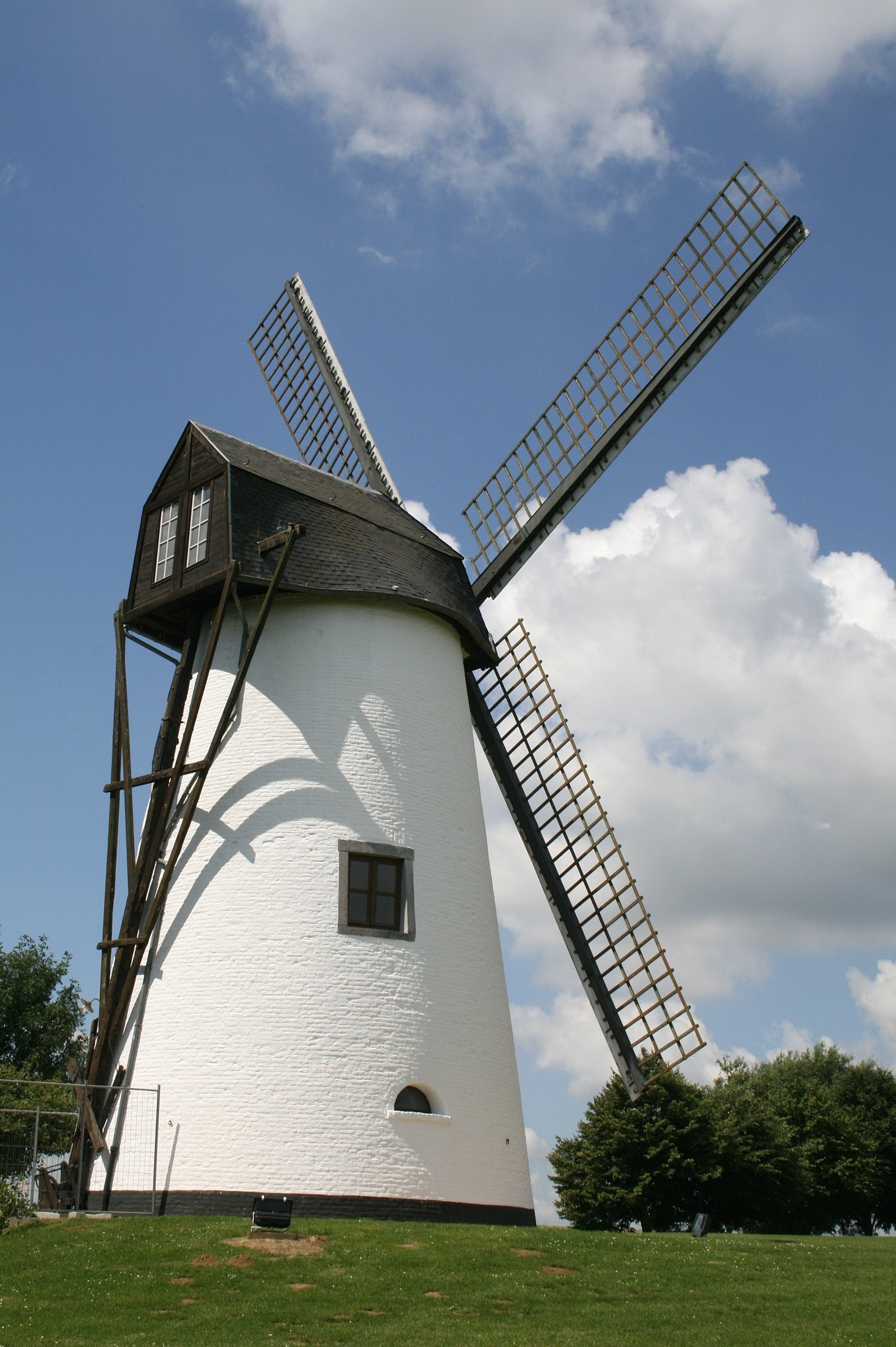 Opprebais, Belgium, the Gustot windmill(1850).